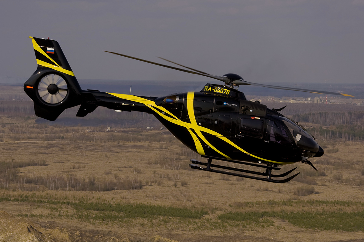 "ChelAvia"Eurocopter EC-135 2T+ RA-04078